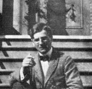 Paul Trullinger, Louise Bryant's 1st husband. Original caption: ““I guess I was too dull for her.” ….Her first husband to Helen Walters, wife of the well-known American Artist. Helen had accompanied Louise to the railroad station form where she was to leave for New York to join Reed. Fully aware she was leaving Portland for good, Paul had nevertheless, brought a batch of violets for her. “It was,” said Helen, “just like a scene from La Boheme.””